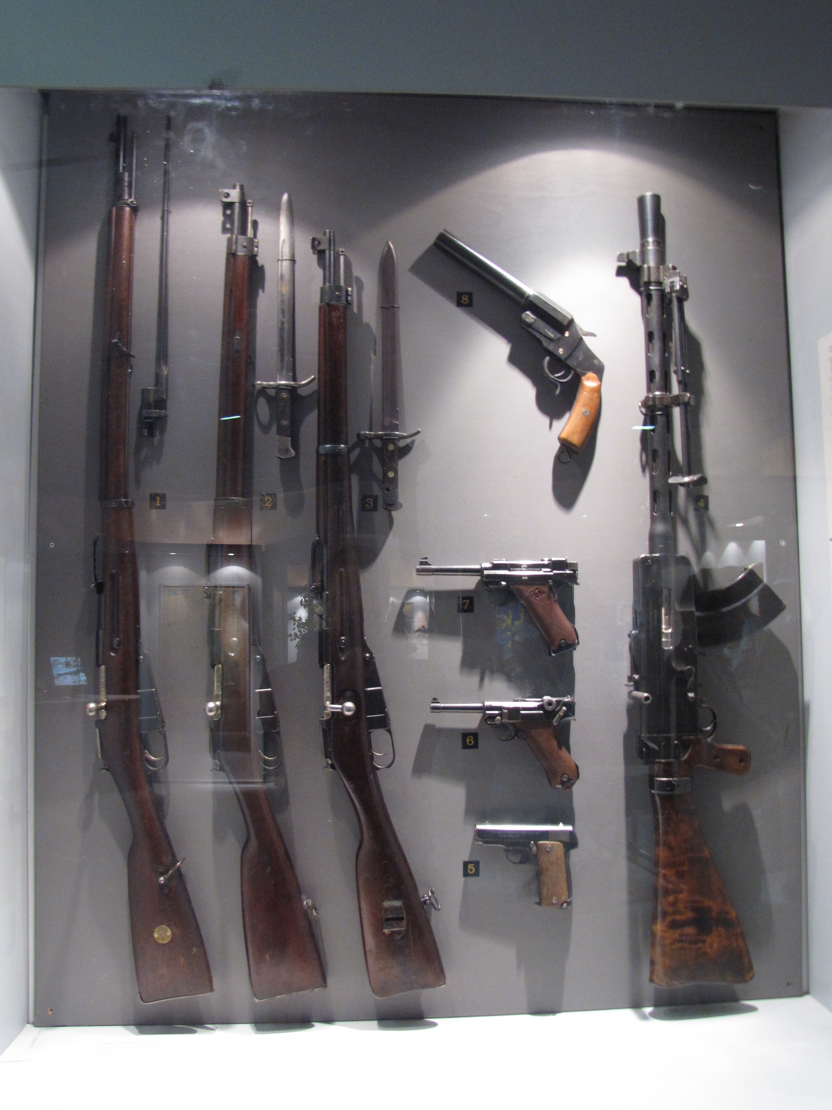 Finnish army World War II weapons: 7.62 mm Mosin-Nagant M/91 rifle with spike bayonet. Finnish 7.62 mm infantry rifle M/27 "army spitz" with M/28 bayonet. Finnish 7.62 mm cavalry rifle M/27 "cavalry spitz" with M/35 bayonet. Finnish 7.62 mm Lahti-Saloranta M/26 light machine gun. Spanish 7.65 mm Ruby pistol, Finnish designation M/19. German 7.65 mm Parabellum pistol, Finnish designation M/23. Finnish 9 mm Lahti L-35 pistol. German 25 mm I.G.A. flare gun Photographed in the "Winter War - 70 years" exhibition in the Military Museum of Finland.